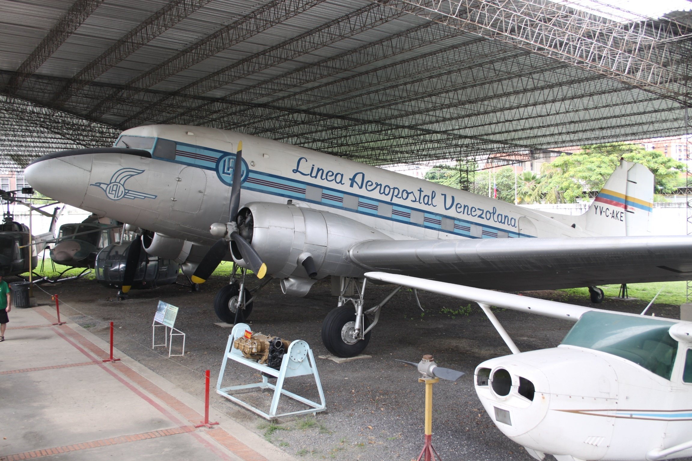 At Museo Aeronáutico de Maracay